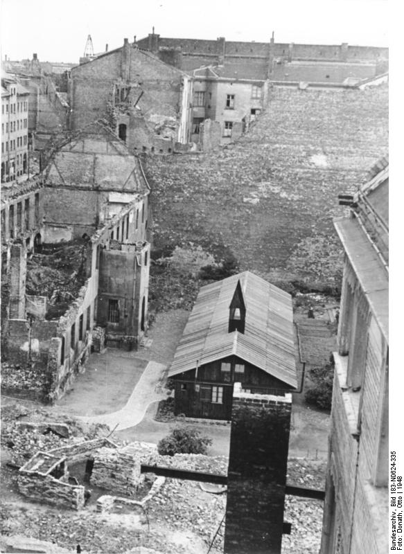 Wooden emergency chapel in front of the war-destroyed church of the Protestant Bohemian-Moravian Brethren congregation in the courtyard of Wilhelmstraße 136, Borough of Kreuzberg, Berlin